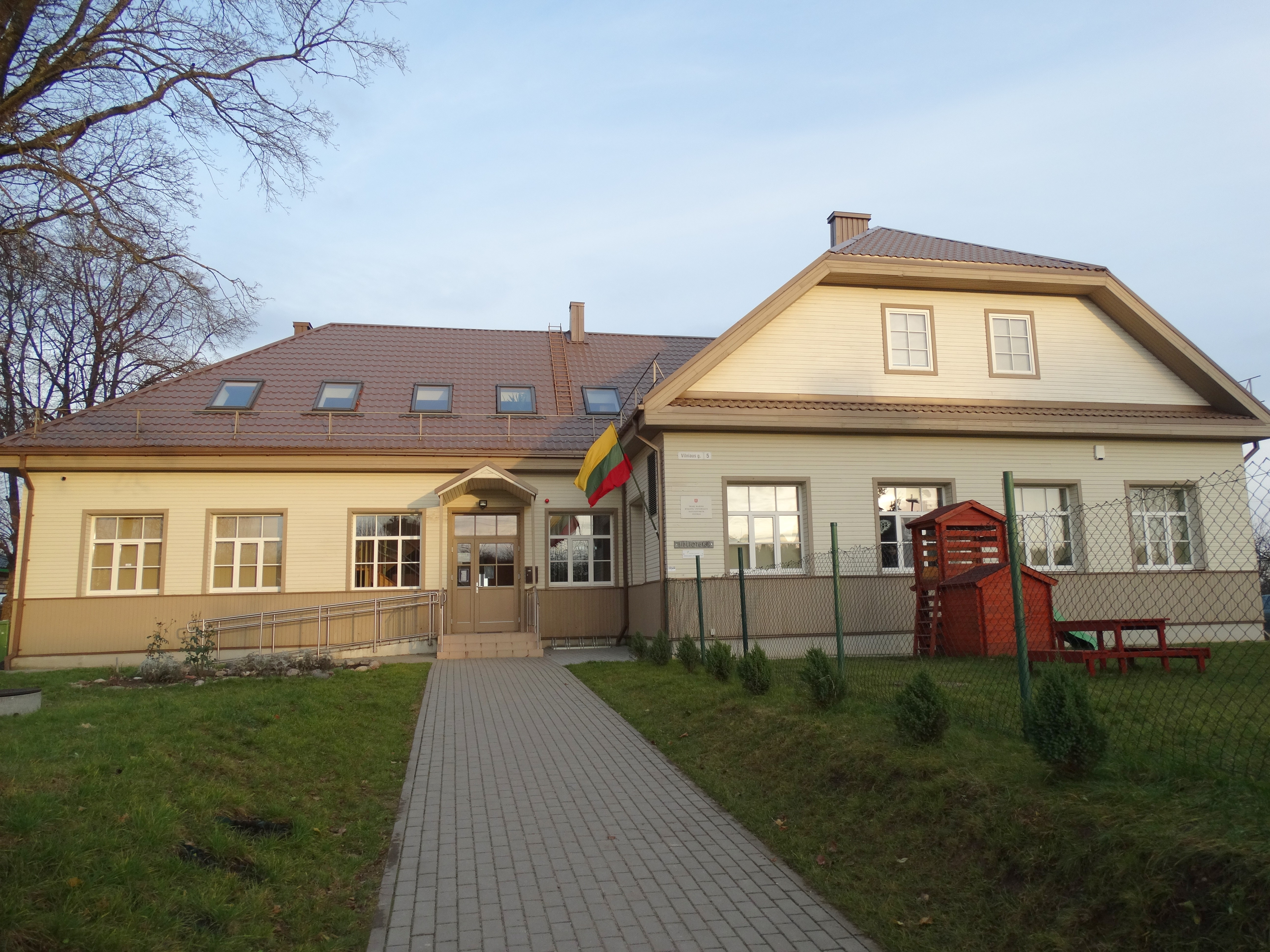 Multifunction centre, Rykantai, Trakai district, Lithuania